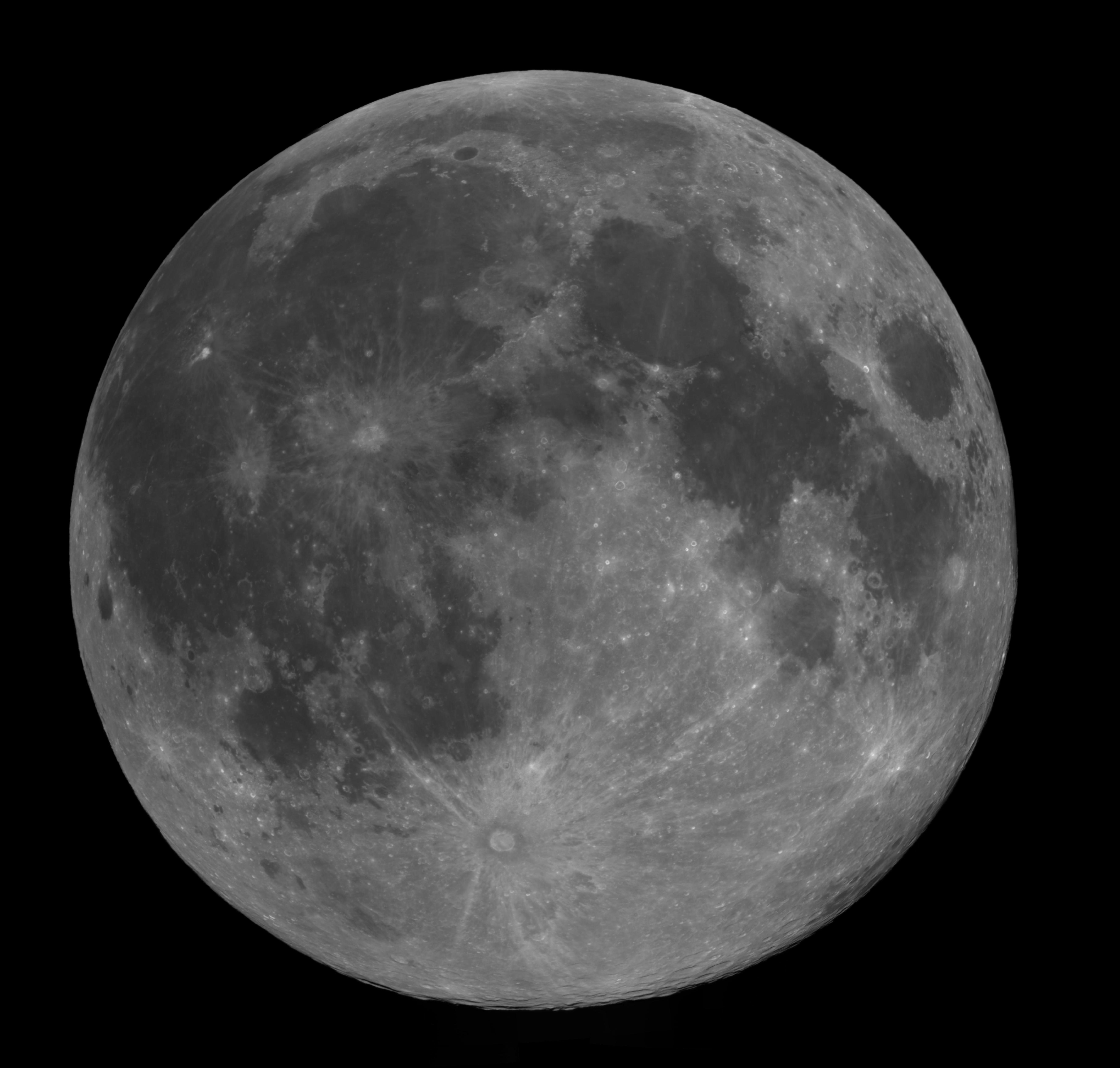 The largest full moon of 2008, this is a composite of over 80 images taken at the Ilan Ramon Youth physics center, located at the Ben Gurion University, Israel.